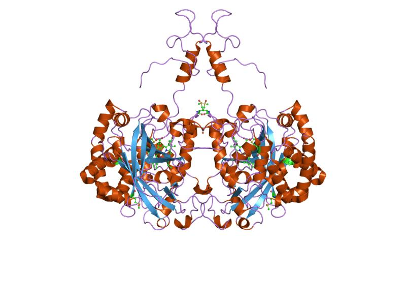 Cartoon representation of the molecular structure of protein registered with 2a9e code.